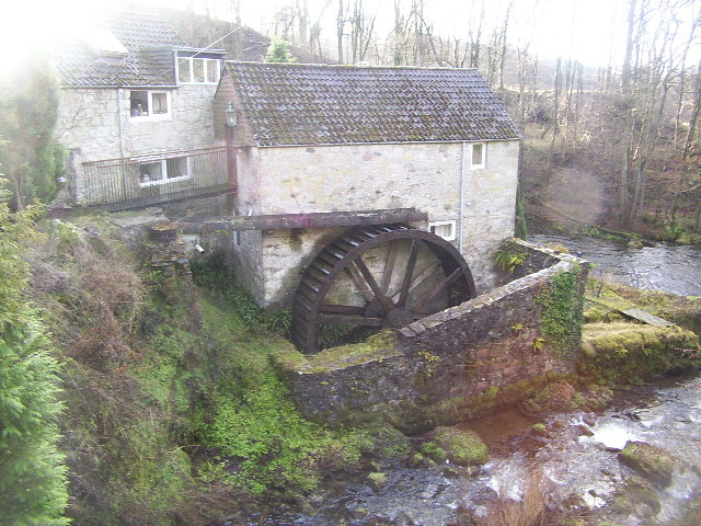 Muckhart Mill. Muckhart Mill, situated at the confluence of the Hole Burn and the River Devon.